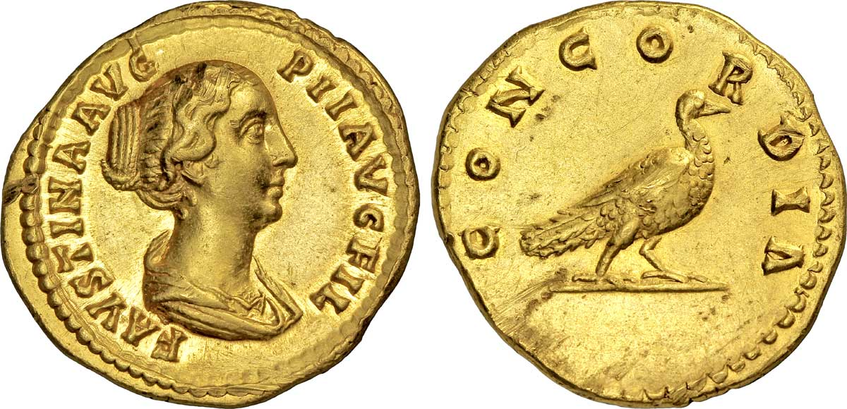 Aureus à l'effigie de Faustine la Jeune Date : 148-150 Faustine jeune reçut le titre d'Augusta après la naissance de son premier enfant, une fille, en 146. L'année suivante, elle donna naissance à un garçon, Titus Ælius Antoninus qui mourut dans l’année. Entre 146 et 152, elle eut cinq enfants. La colombe représente la pureté. C’est l’animal de Vénus, déesse de l'amour et de la Fécondité. Au droit, le buste semble encore juvénile, la coiffure est ornementée et le visage semble plus mature. Les cheveux sont légèrement tirés et crantées en arrière et terminés par un petit chignon enroulé, retenu par des perles. Le buste drapé est ample et les plis nombreux. Nous avons principalement une légende associée à ce revers avec des bustes à droite ou à gauche, plus ou moins ornementé. Le fait que cet aureus soit associé à celui de Marc Aurèle daté de 149 n’est pas anodin. Marc Aurèle et sa femme sont ici réunis jeunes et encore heureux, unis dans le métal pour l’Éternité !.